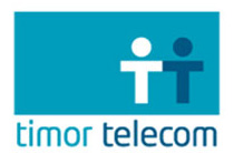 timor telecom logo